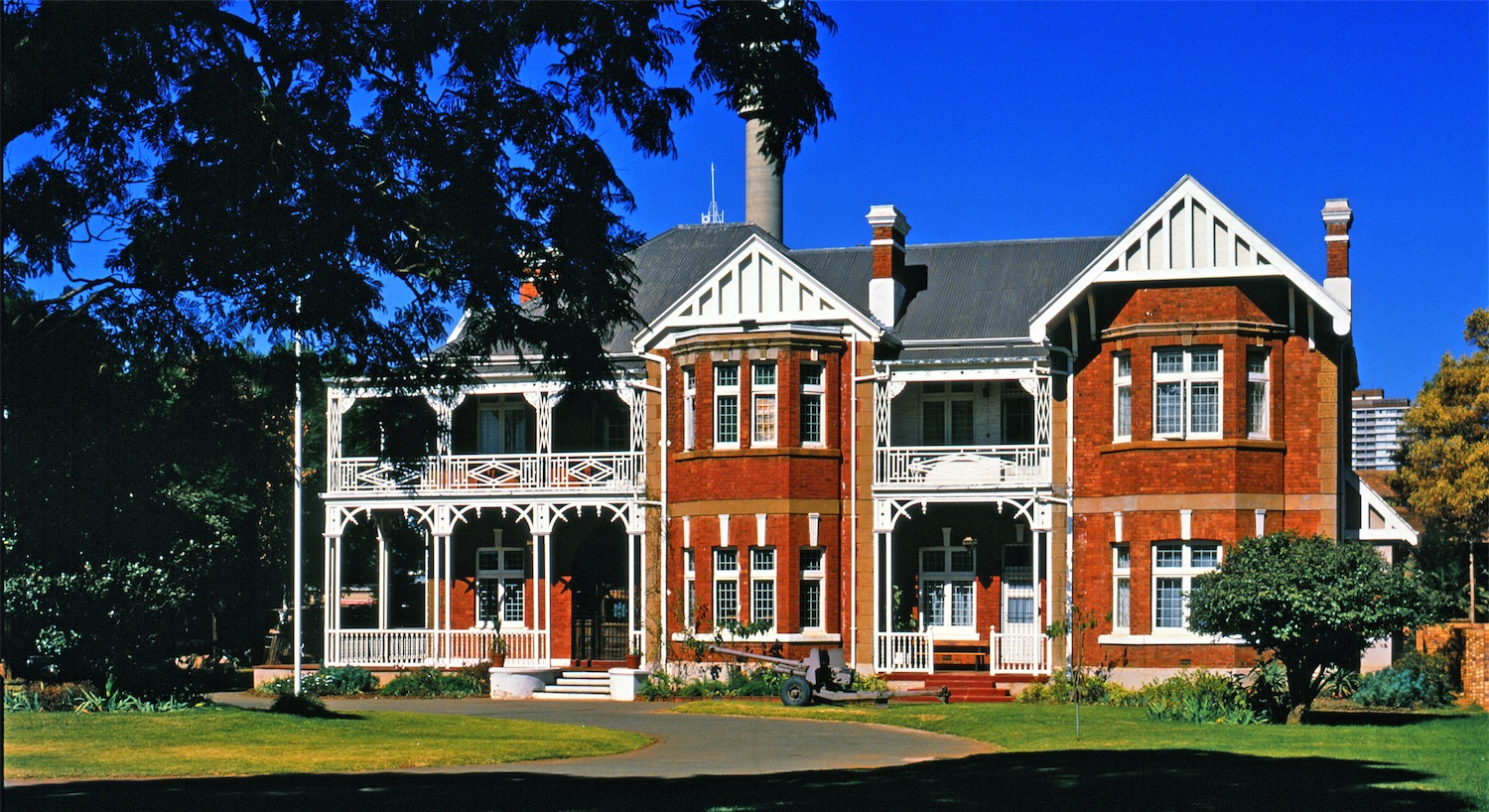 This media shows a South African Protected Site with SAHRA file reference 9/2/228/0003.